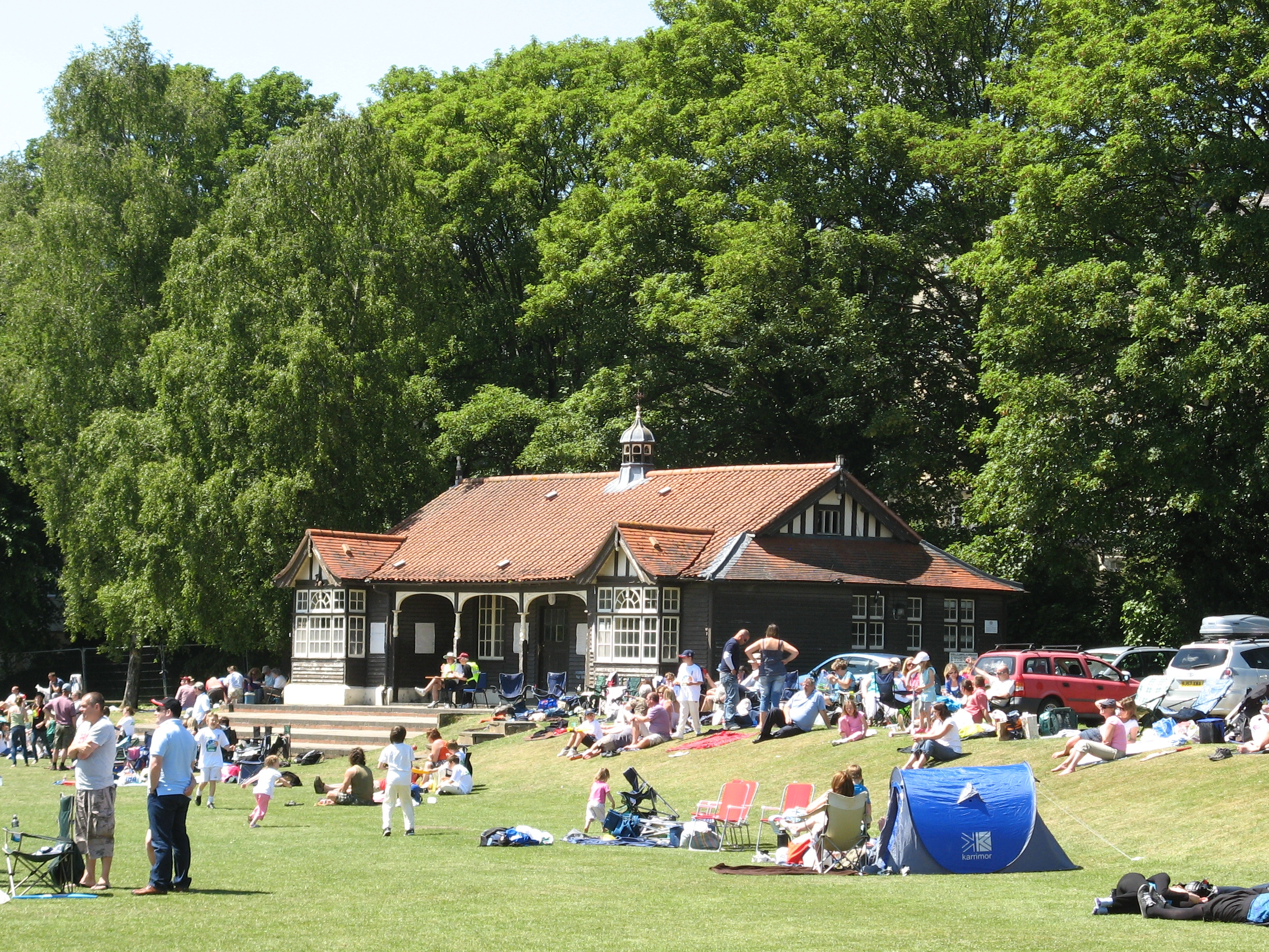 The Recreation Ground, Bath, England. Cricket pavilion on a children's cricket day.